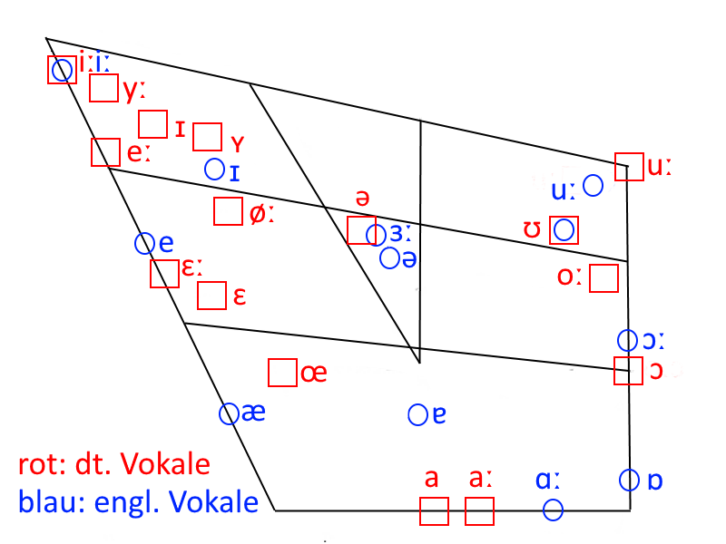 Vocal diagram showing tongue positions of German (red) and English (blue) monophtongs.